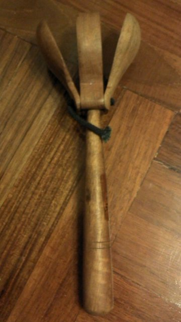 A handle castanets